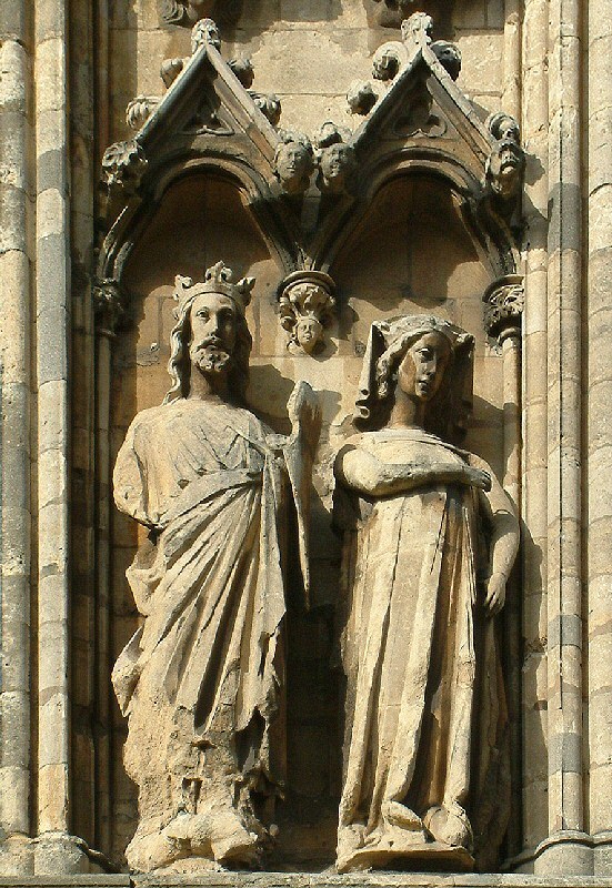 Edward I of England & Eleanor of Castile, from Lincoln Cathedral. Eleanor of Castile was married at the age of ten to Edward of Westminster in October 1254 when he was just 15 years old. It was a marriage of convenience to suit Alphonso of Castile -Eleanor's brother, and Henry III of England -Edward's father, who were at war with one another. Despite the original political intentions of their marriage, it is understood they were very much in Love. It is said that Edward and Eleanor were inseparable and she went on the crusades with him in 1270. When they returned and the King, Henry III died they were both crowned in Westminster Abbey on the 19th of August 1274. In 1290 news reached Edward that Queen Margaret of Scotland, commonly known as The Maid of Norway, had died. He immediately hastened Northwards leaving Eleanor to follow at a more leisurely pace as she had just given birth to her 15th child (who did not survive). On her arrival at Harby in Nottinghamshire about 8 miles from Lincoln she was taken ill with a fever. Eleanor did not improve and so the King was sent for but she died on the 24th of November 1290 before he arrived. Her body was immediately carried to St Catherine's Priory in the south of Lincoln where she was embalmed. Her viscera was sent for burial in Lincoln Cathedral and her body was sent to London for burial in Westminster Abbey where she lies at the feet of her father in law King Henry III. Her heart which travelled with the body was buried in Blackfriars Church. From St Catherine's at the bottom of "Cross o Cliff Hill in Lincoln the cortege took 12 days to get to London and between 1291 and 1294 for each place where the procession rested overnight an Eleanor's Cross was erected. The only remaining piece of the St Catherine's cross left in Lincoln is kept in Lincoln Castle.